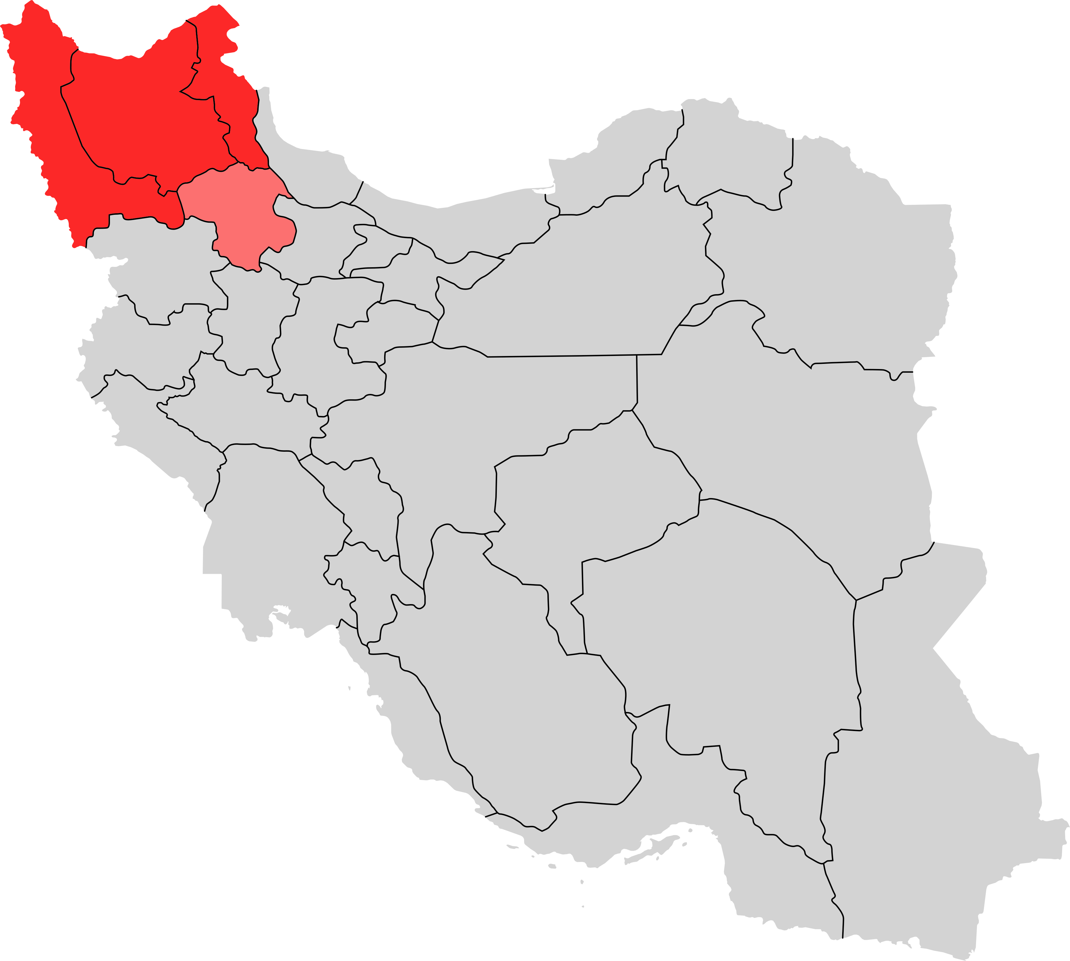 The map of provinces Iranian Azerbaijan which includes West Azerbaijan, East Azerbaijan, Ardabil, and Zanjan.